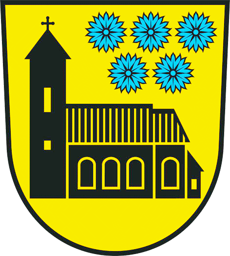 Coat of arms of Waltersdorf, Part of Schönefeld